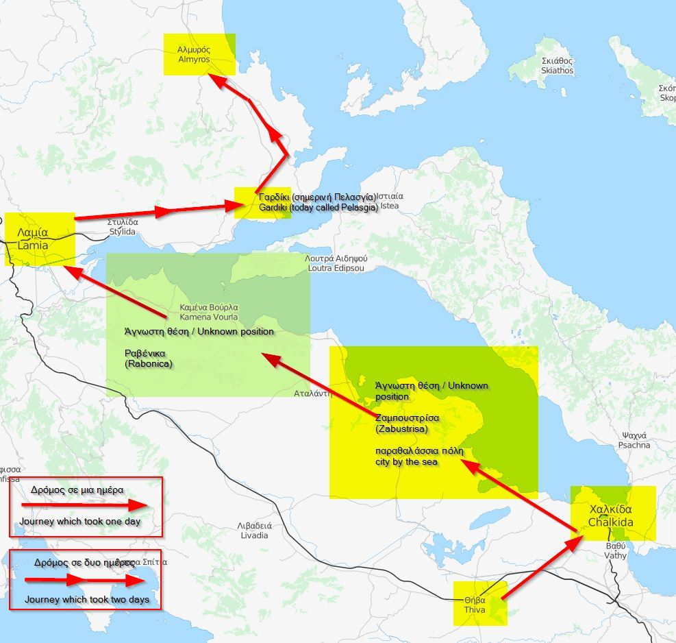 Route of Benjamin of Tudela through Central Greece, from Thebes, to Negroponte (Chalkis), Zabustrisa (city by the sea, position unknown), Ravennika (position unknown), Sinon Potamos or Zeitun (Lamia), Gardiki (modern Pelasgia), Almyros